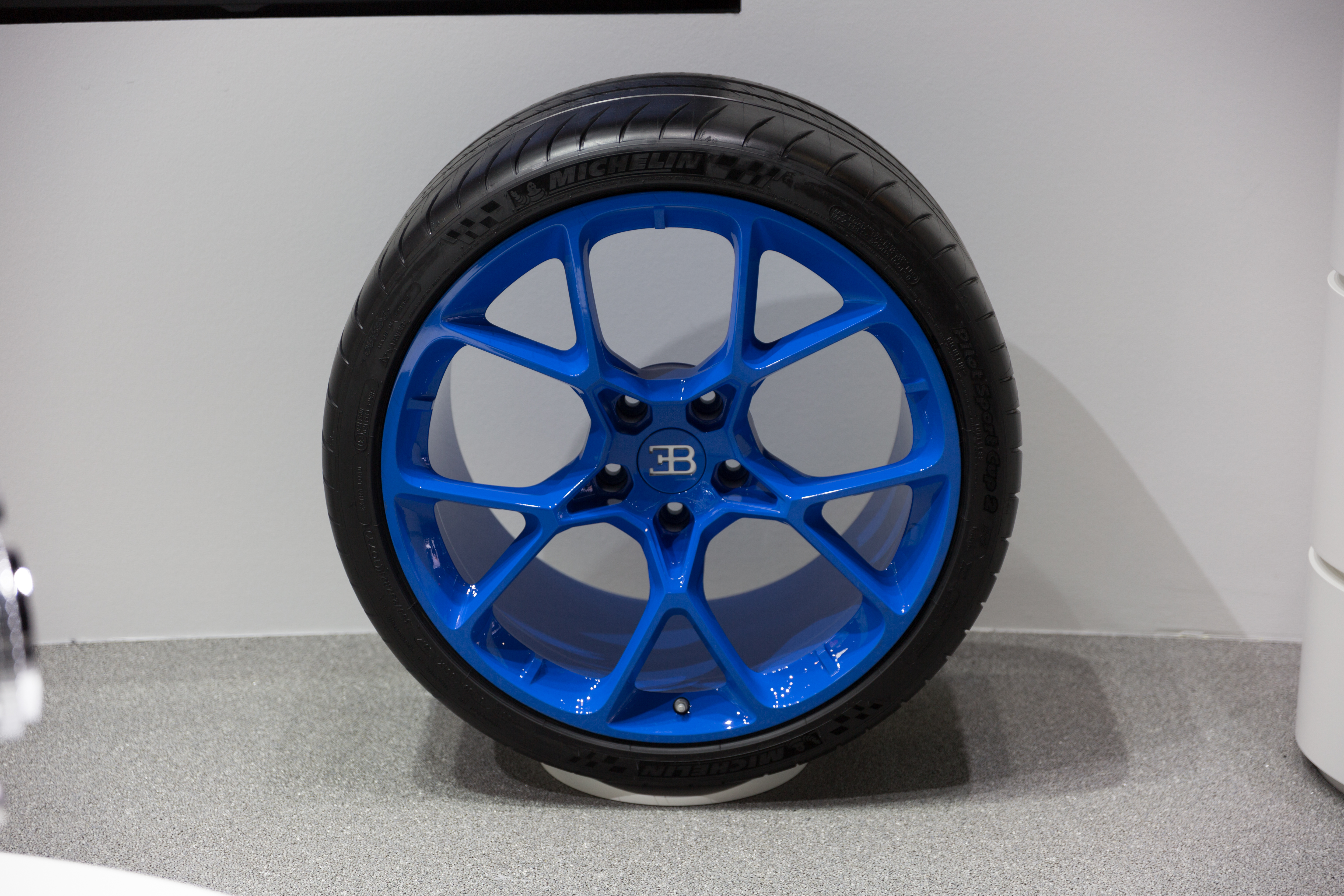 Wheel, IAA 2017